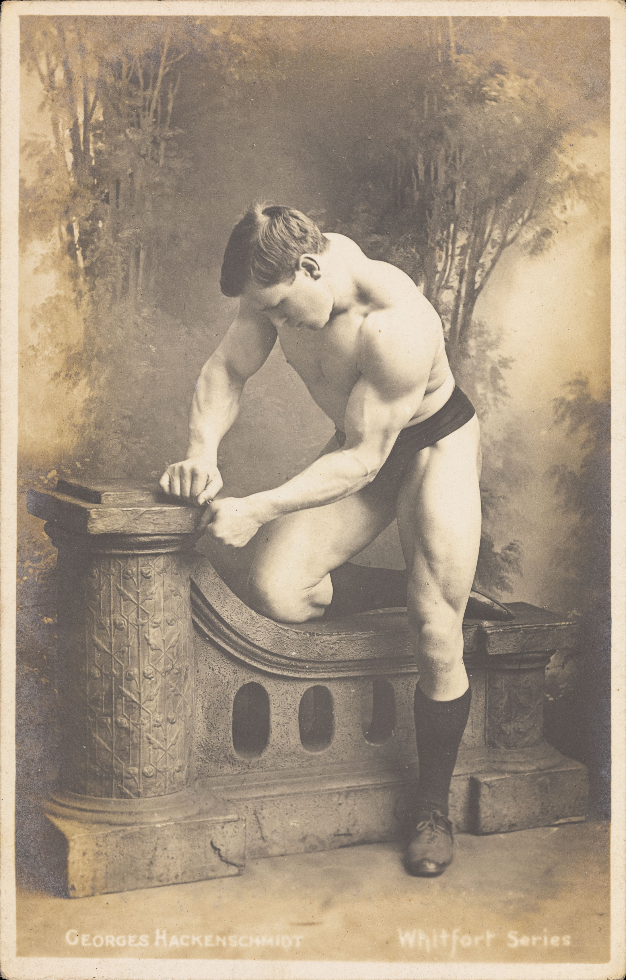 Vintage postcard of the German wrestler Georg Hackenschmidt, model for Reinhold Begas' statue Prometheus.